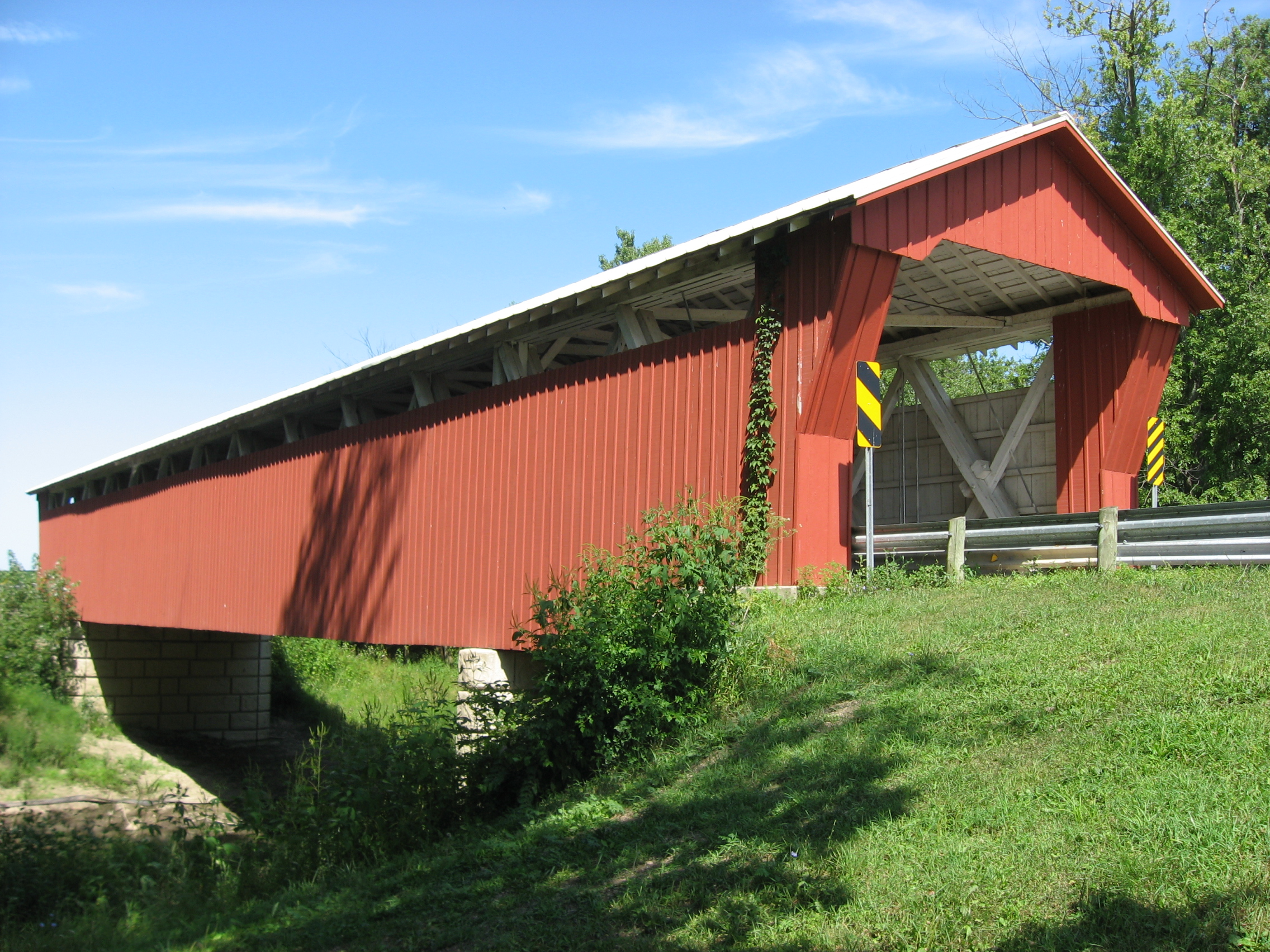 Three-quarters view (facing northwest) of the McColly Covered Bridge in Washington Township, Logan County, Ohio, United States. The bridge, which was built in 1876 and is listed on the National Register of Historic Places, carries County Road 13 over the Great Miami River near its source at Indian Lake.